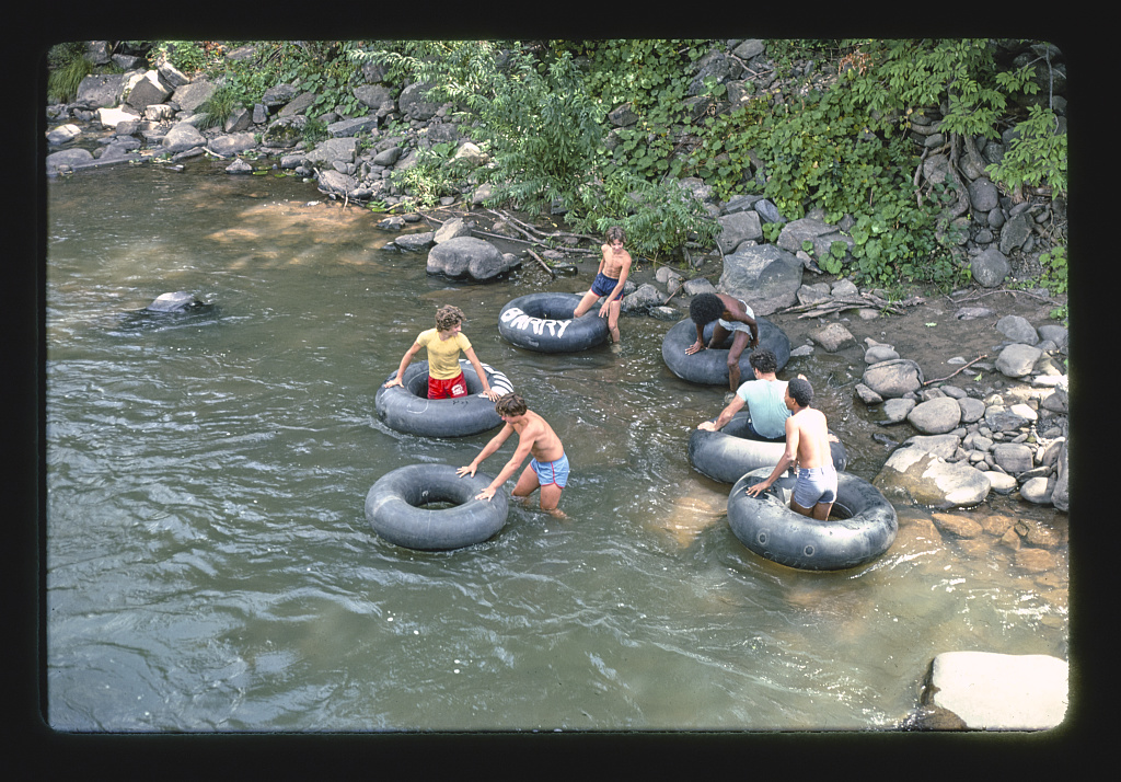 Photo is part of the John Margolies Roadside America photograph archive and is available at . It depicts Inner tubers in Phoenicia, New York.